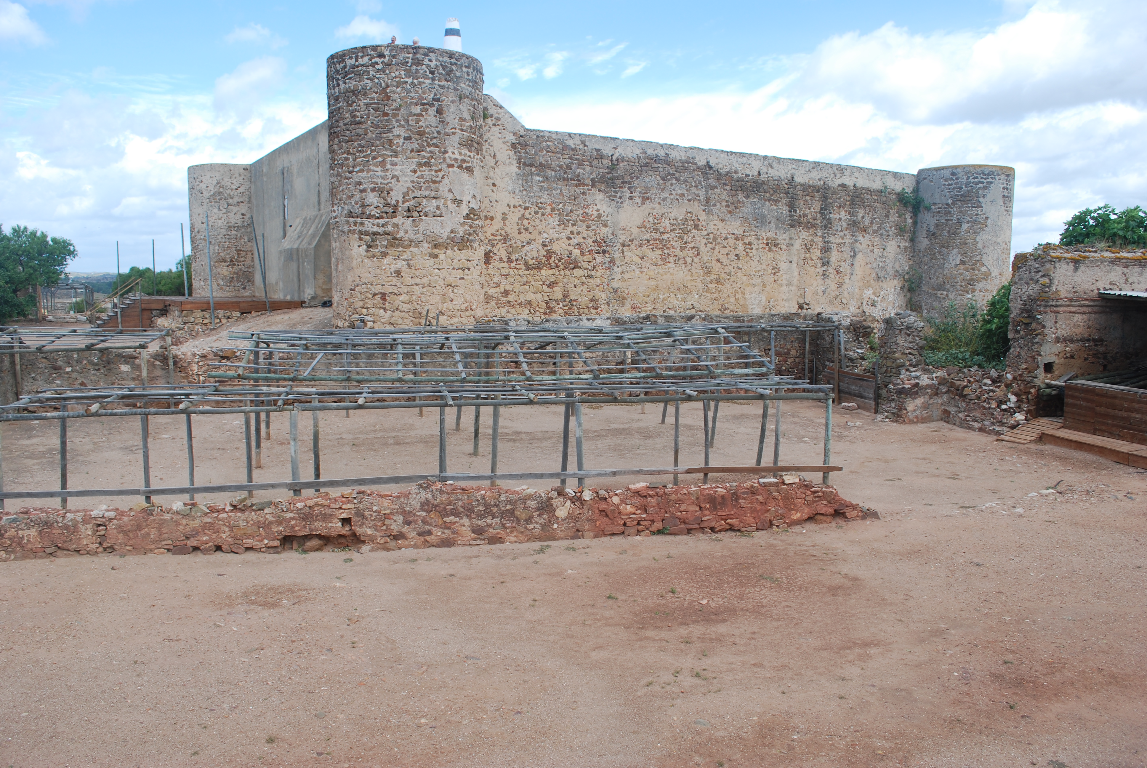 This file was uploaded for Wiki Loves Monuments in Portugal with the unique identifier 70377.